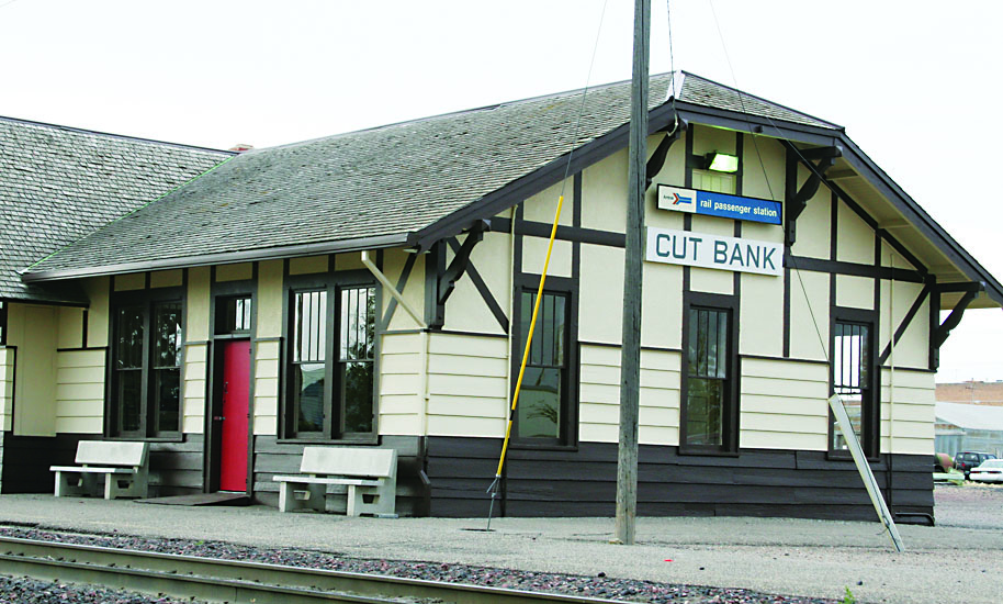 zbbzb